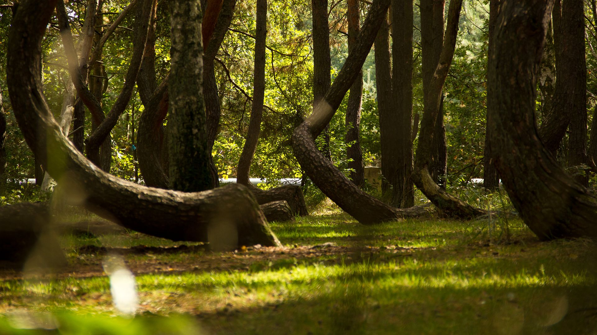 Crooked Forest, Nowe Czarnowo